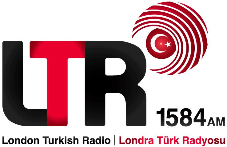 Logo of London Turkish Radio